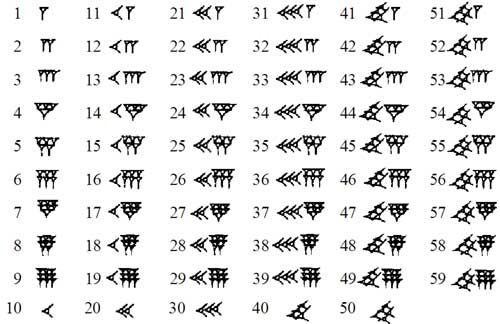 Babylonian numerals